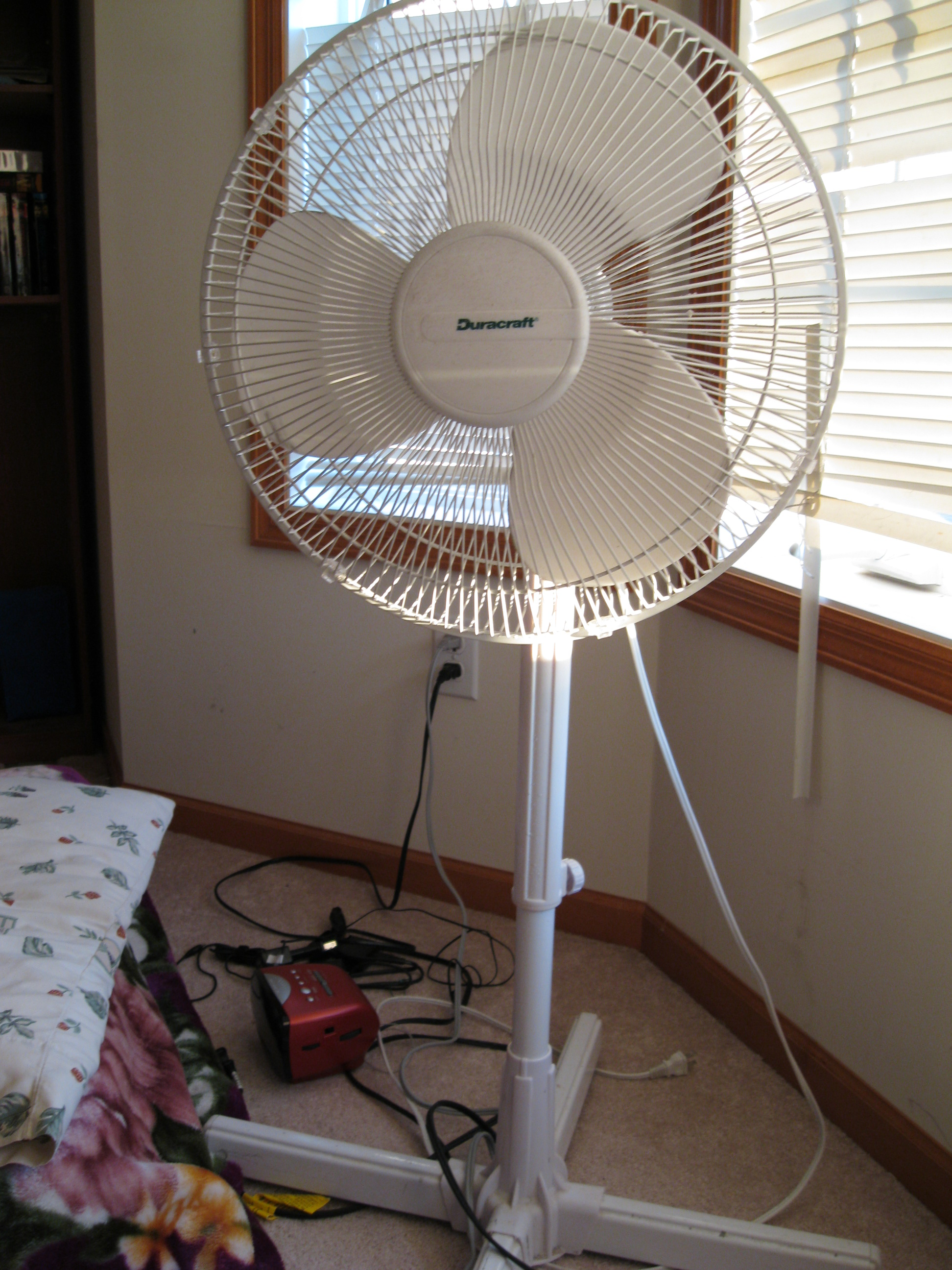 A fan.